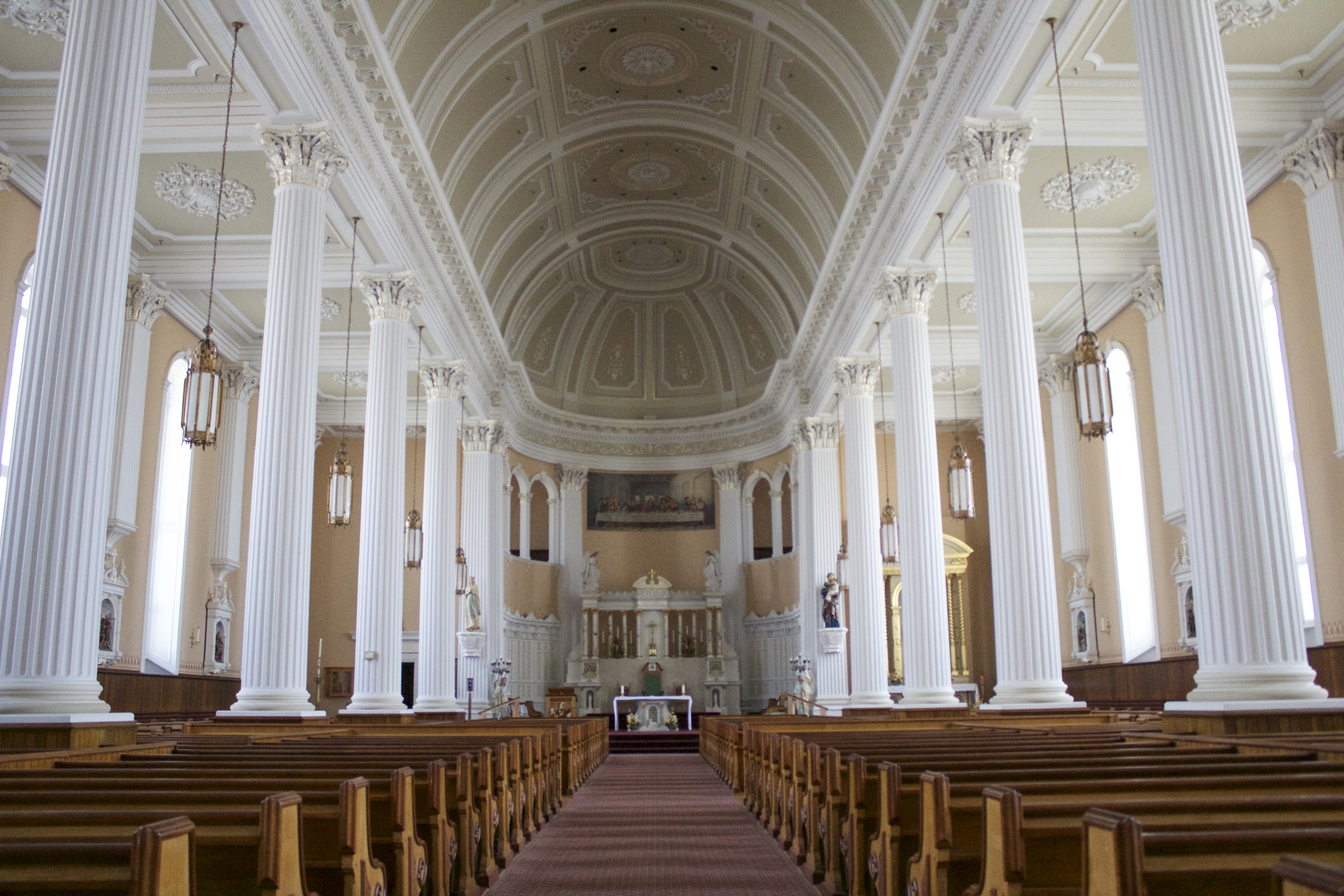 Interior view of St. Joseph's Co-Cathedral in Burlington, Vermont, 2015